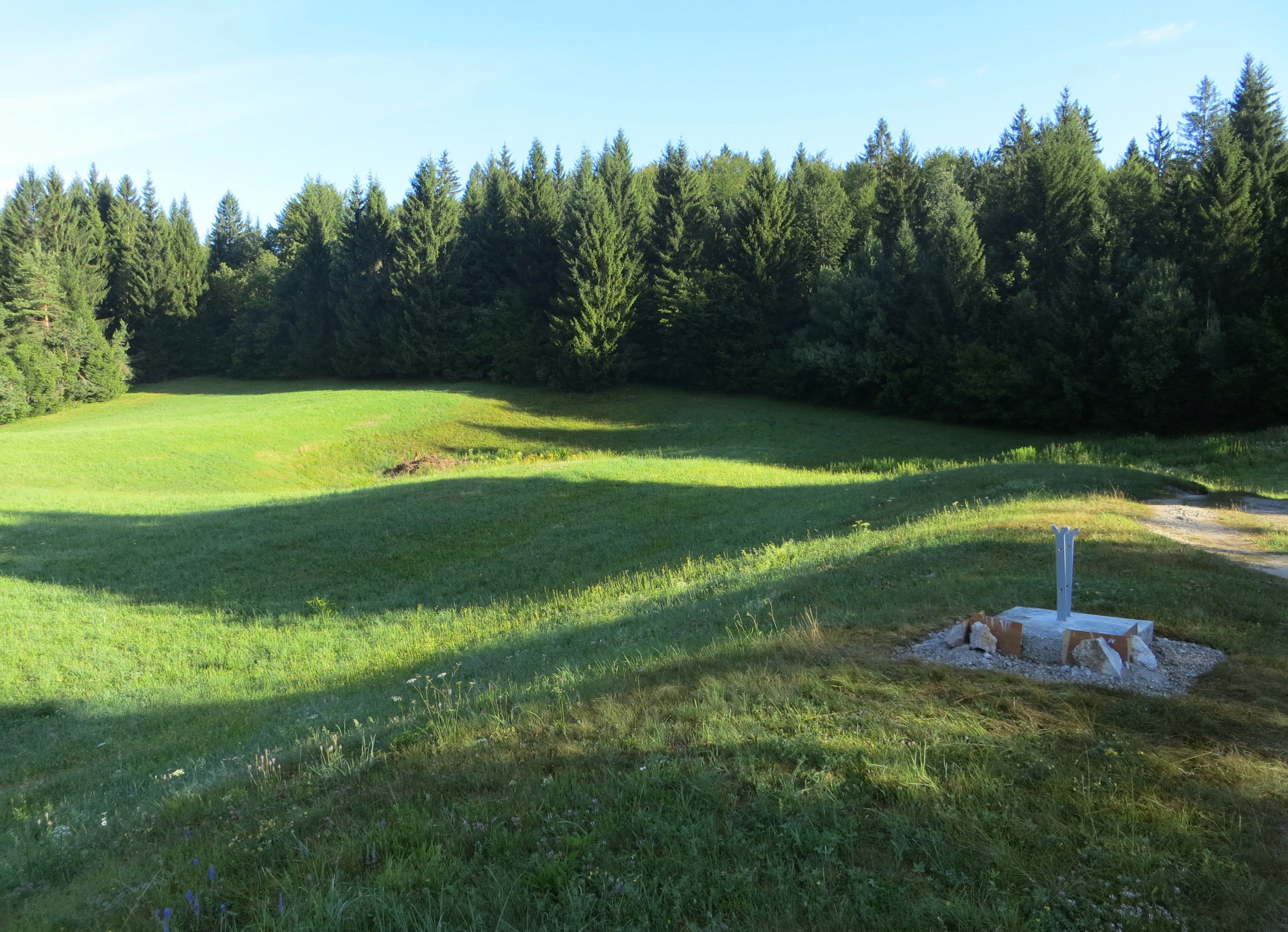 Golo Mass Grave site in Golo, Municipality of Ig, Slovenia